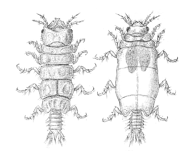 Gnathiid isopod Caecognathia elongata male (left) and female (right).